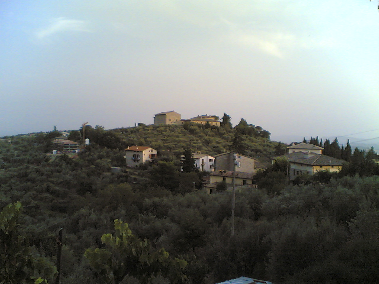 S.Agostino's church in Corciano, under the hill near the town.